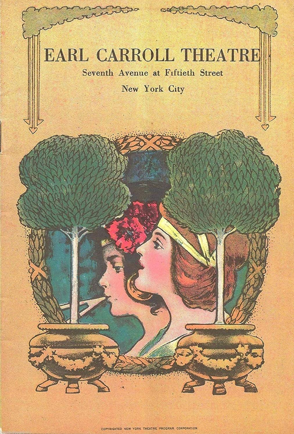 This is the cover of the program from the first production of "The Earl Carroll Vanities," 1923. New York Theatre Program Corporation.